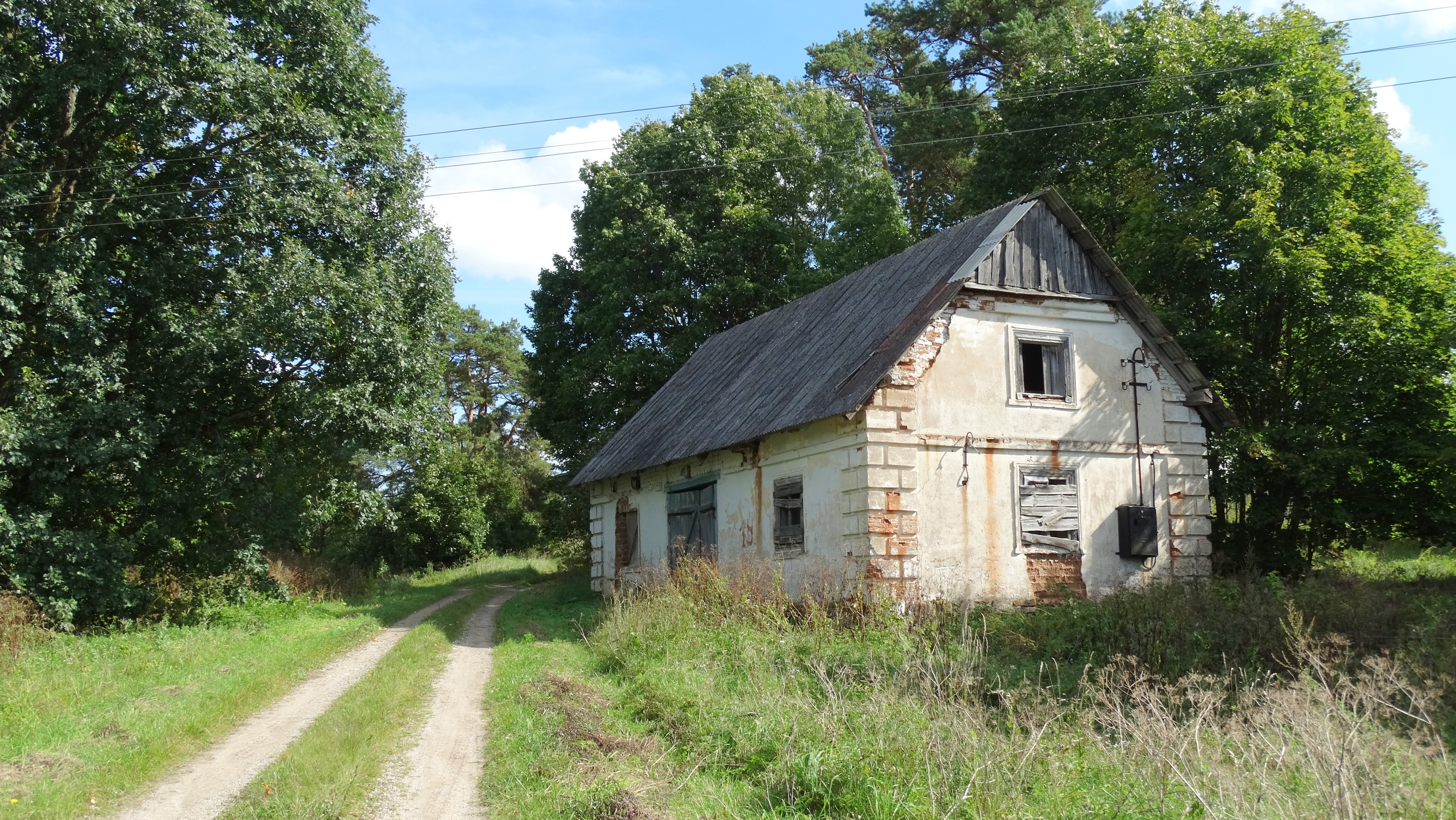 Former manor, mill, Kurkliai II, Anykščiai district, Lithuania